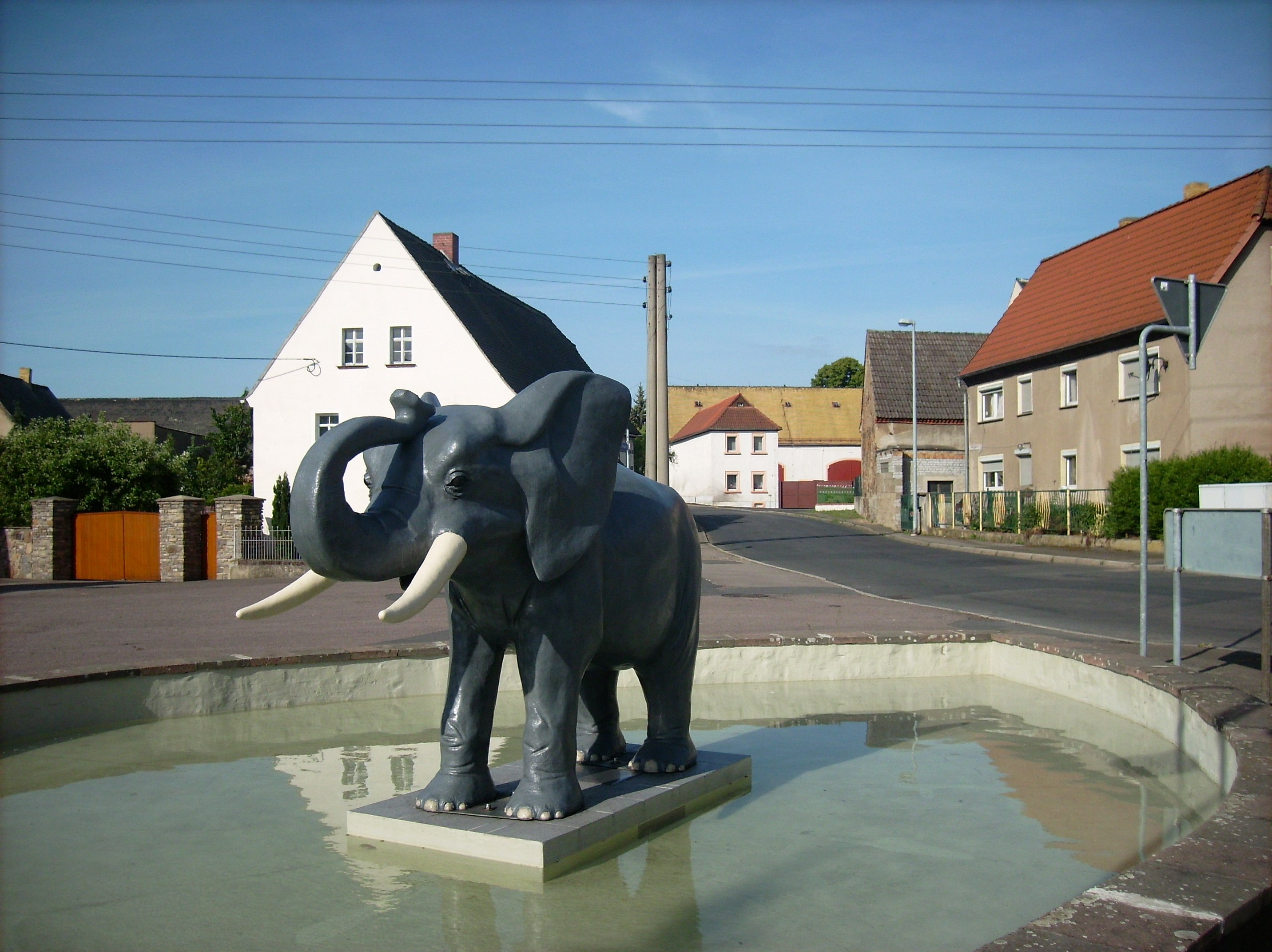 Elephant fountain in Kühren (Wurzen, Leipzig district, Saxony)